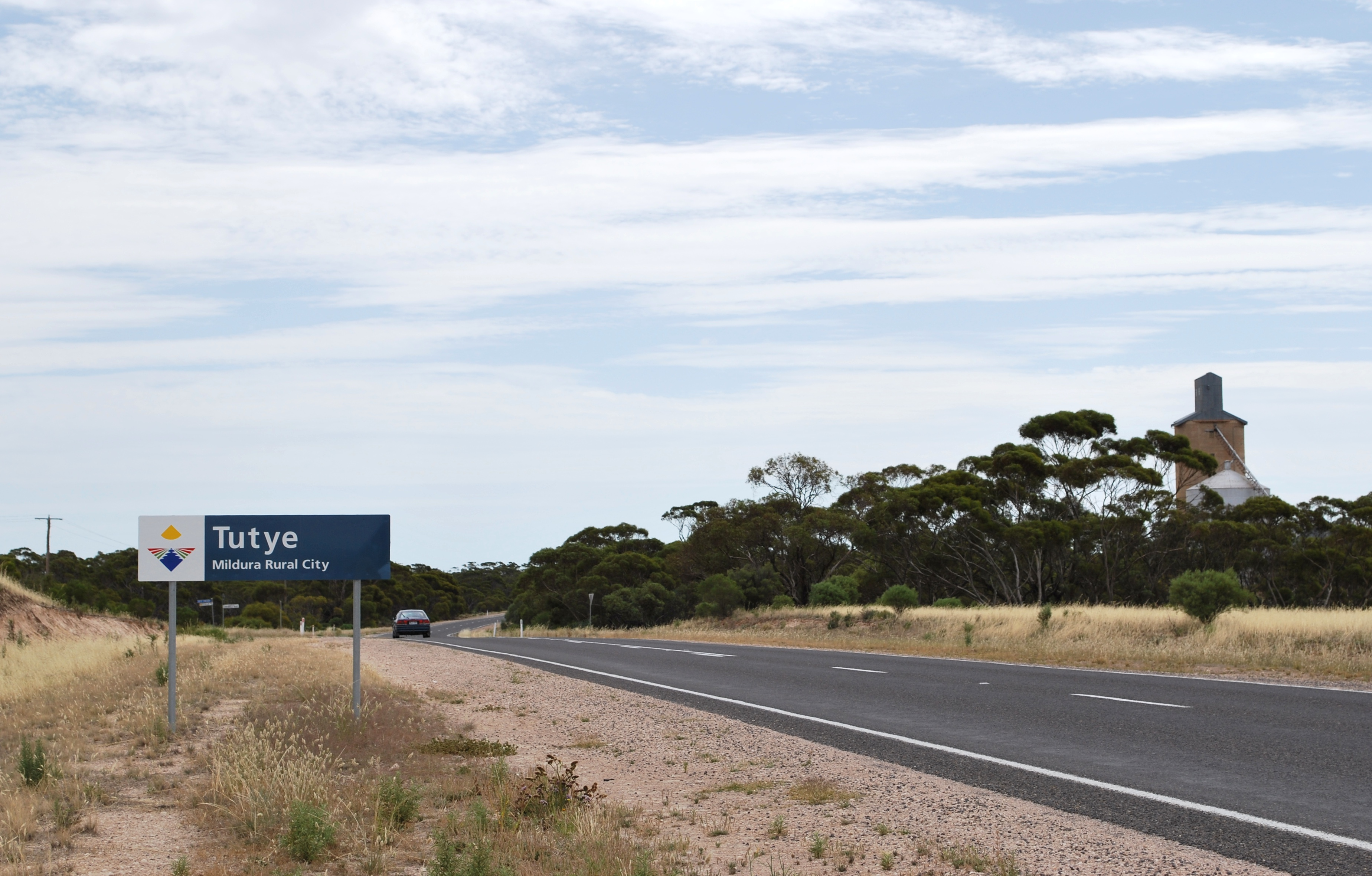 Town entry sign at Tutye, Victoria